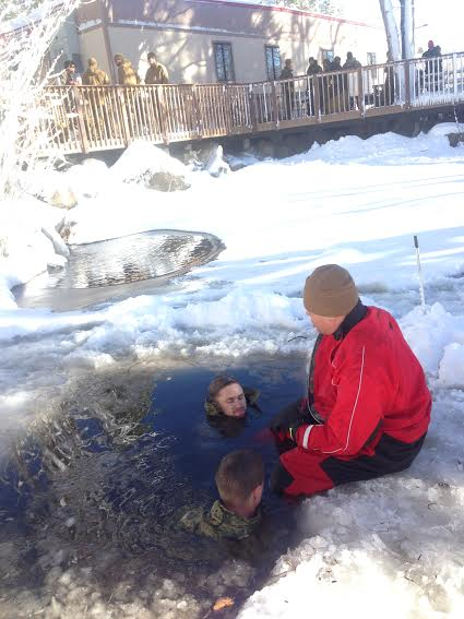 Two marines taking part in what will be a 70 person study on hypothermia and rewarming methods. This is also a day of training for the Marines. In this photo the water is 0 degrees C and the marines will stay in the water for a total of 10 minutes.